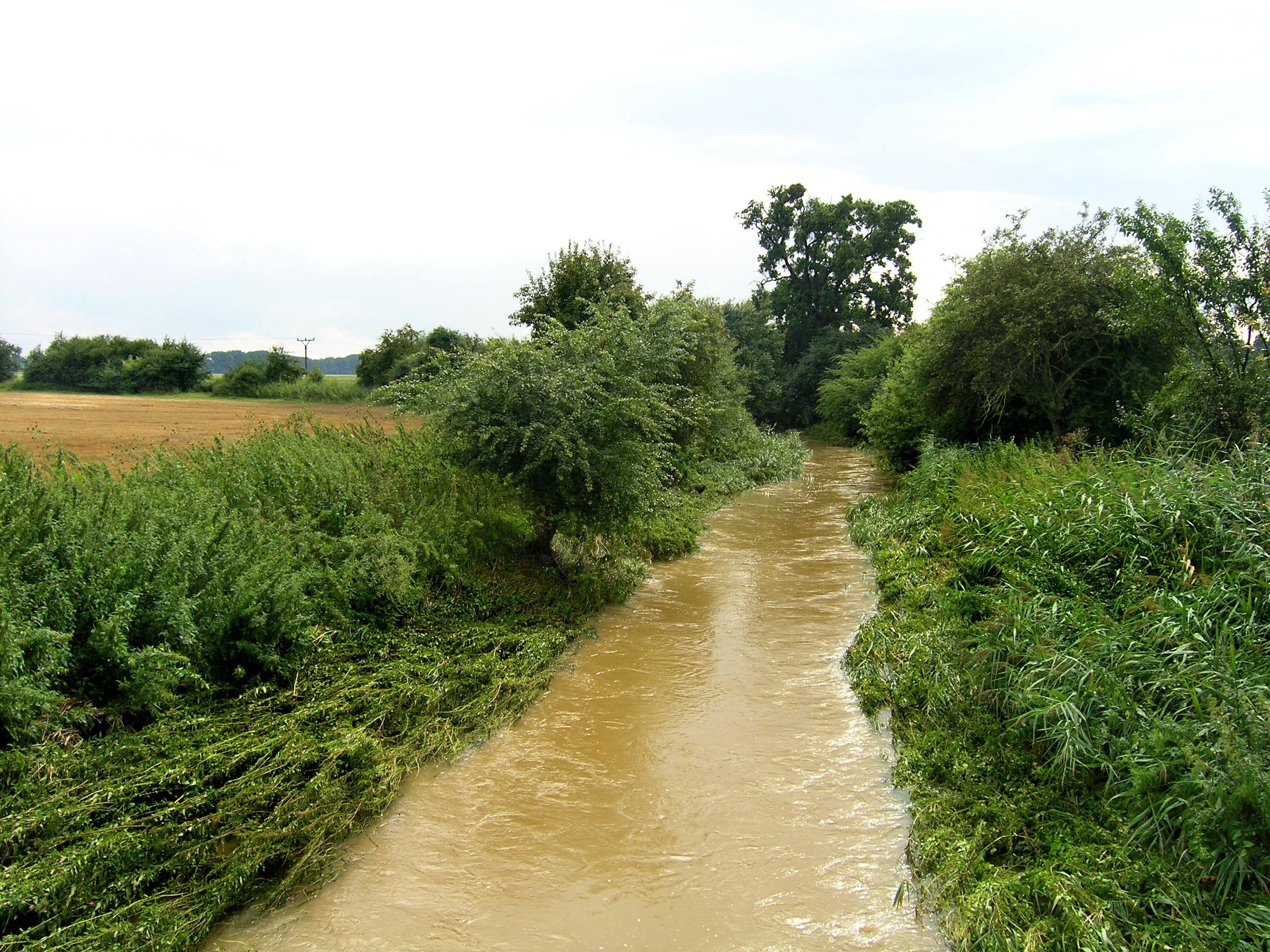 Brslenka river by Žehušice, Czech Republic